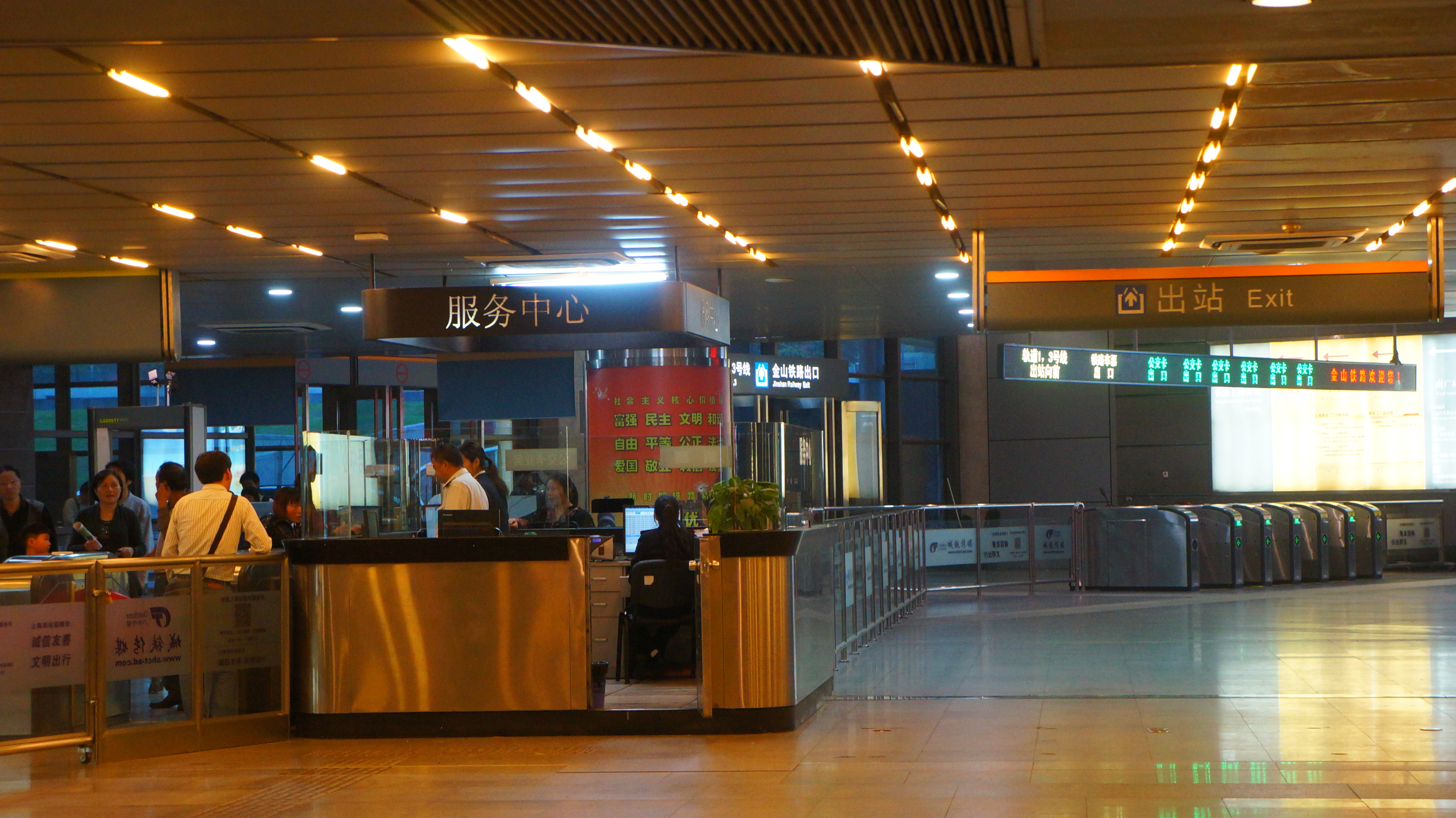 201511 Exit and Service center for Jinshan Railway at Shanghainan Station